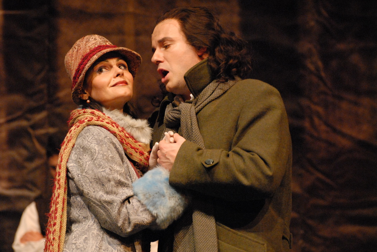 La bohème composed by Giacomo Puccini, Svitlana Dekar, soprano i Saša Štulić, tenor, SNT, Novi Sad, 2006/2007 Srpski (latinica): Boemi, opera, Đakoma Pučinija, Svitlana Dekar, sopran i Saša Štulić, tenor, SNP, Novi Sad, 2006/2007. Српски (ћирилица): Боеми, опера Ђ. Пучинија, Свитлана Декар, сопран и Саша Штулић, тенор, СНП, Нови Сад, 2006/2007